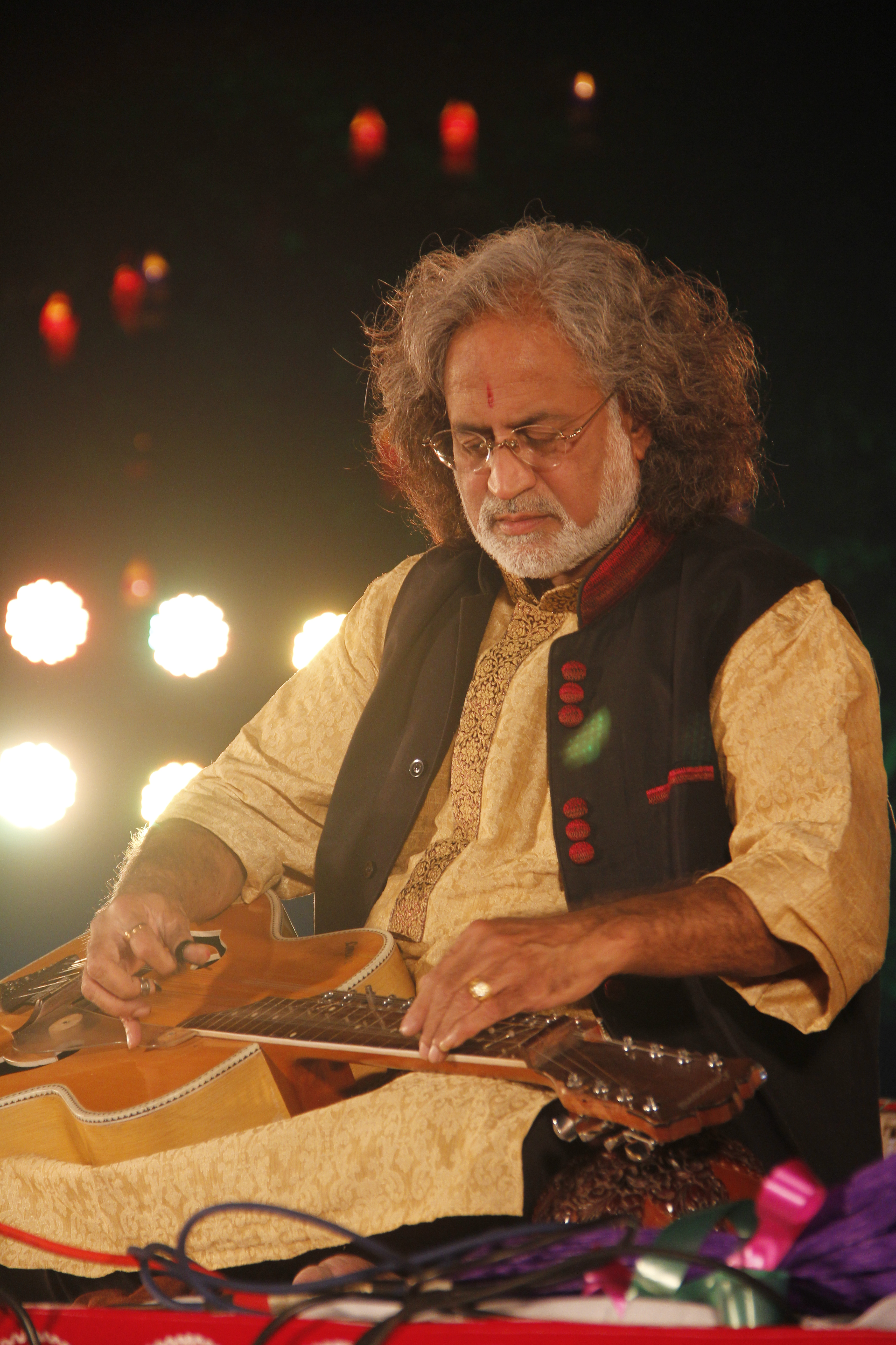 Vishwa Mohan Bhatt at Rajarani Music Festival in Bhubaneswar, Odisha